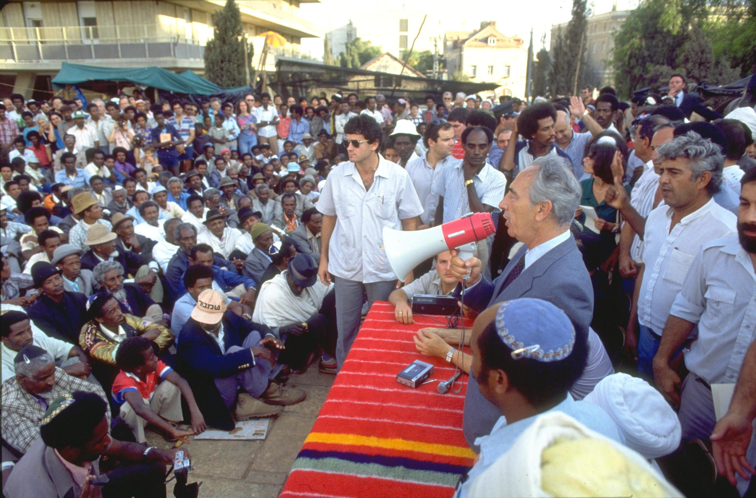 Prime minister Shimon Peres delivering a speech in front of Ethiopian immigrants, demonstrating in front of the chief rabbinite in Jerusalem.